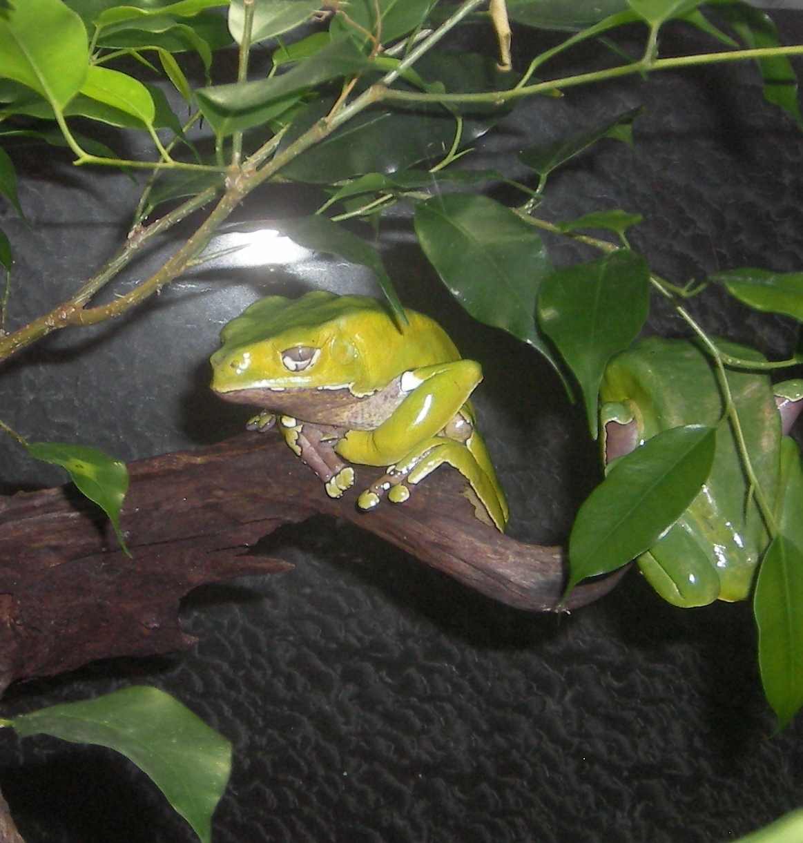 Phyllomedusa bicolor